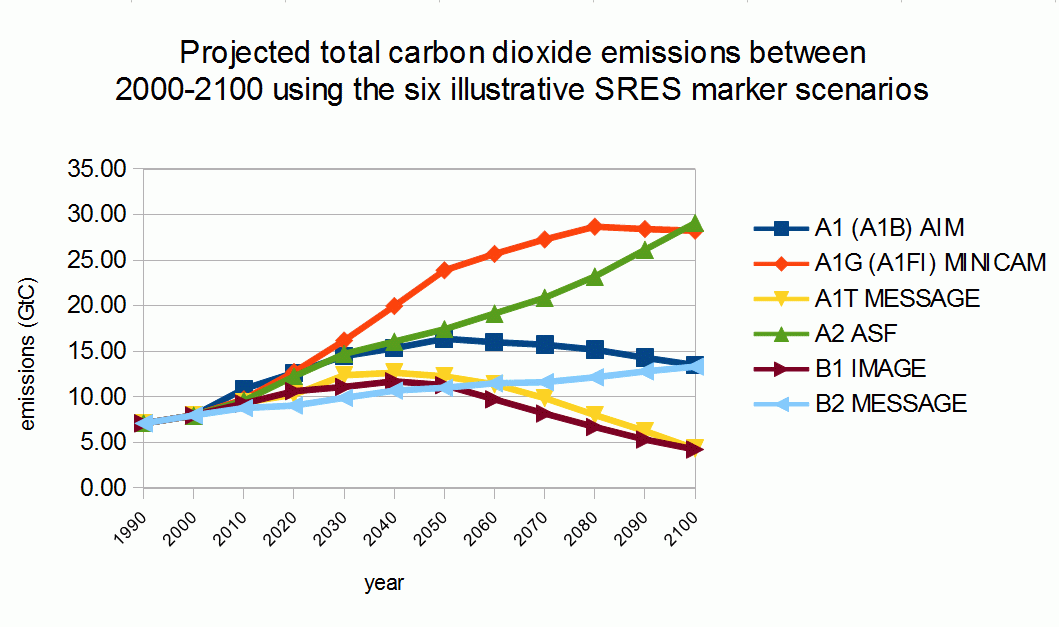 This graph shows projected total carbon dioxide emissions between the years 2000-2100 using the six illustrative SRES marker scenarios. In 2000, emissions for all the scenarios start off at 7.97 gigatonnes of carbon (GtC). In 2000, emissions for all the scenarios start off at 7.97 gigatonnes of carbon (GtC). In 2050, emissions (in GtC) for the scenarios are: A1 AIM (a.k.a. A1B) = 16.38, A1G MINICAM (a.k.a. A1FI) = 23.90, A1T MESSAGE = 12.26, A2 ASF = 17.43, B1 IMAGE = 11.29, B" MESSAGE = 11.01. In 2100, emissions (in GtC) for the scenarios are: A1 AIM (a.k.a. A1B) = 13.49, A1G MINICAM (a.k.a. A1FI) = 28.24, A1T MESSAGE = 4.32, A2 ASF = 29.09, B1 IMAGE = 4.23, B" MESSAGE = 13.32. The full set of emissions data can be downloaded from the SRES website: SRES Final Data (version 1.1, July 2000).